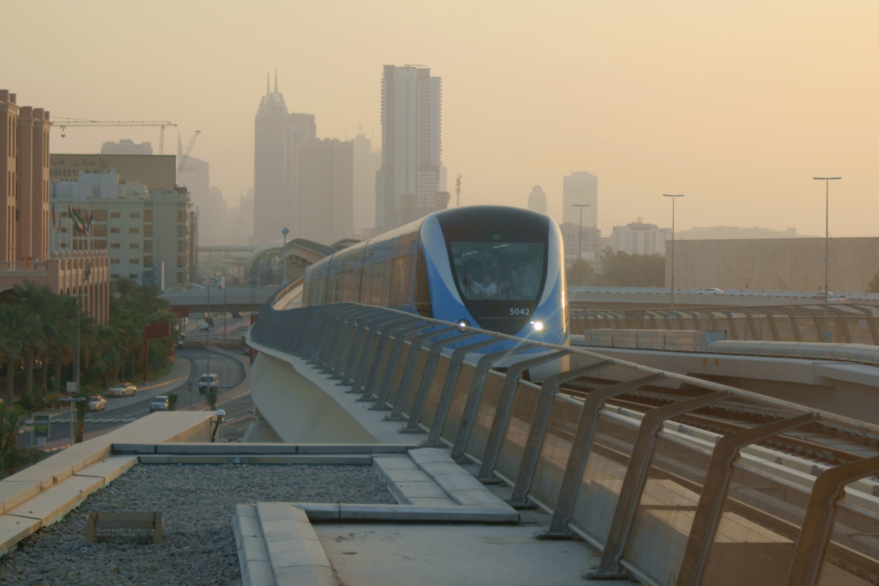 Metro Dubai on its opening day September 10th, 2009. Station Mall of the Emirates.